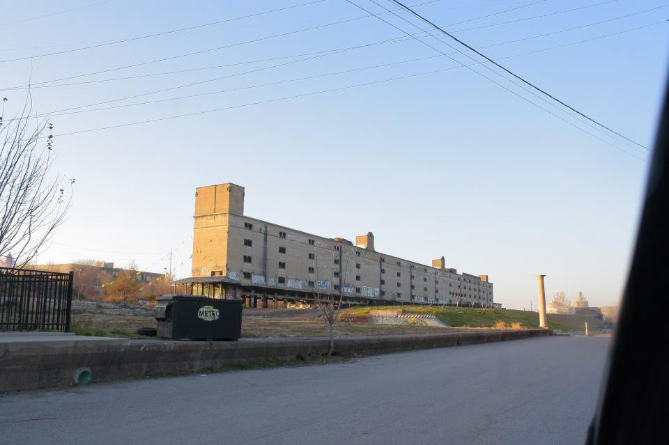 This is an exterior shot of the Cotton Belt Freight Depot